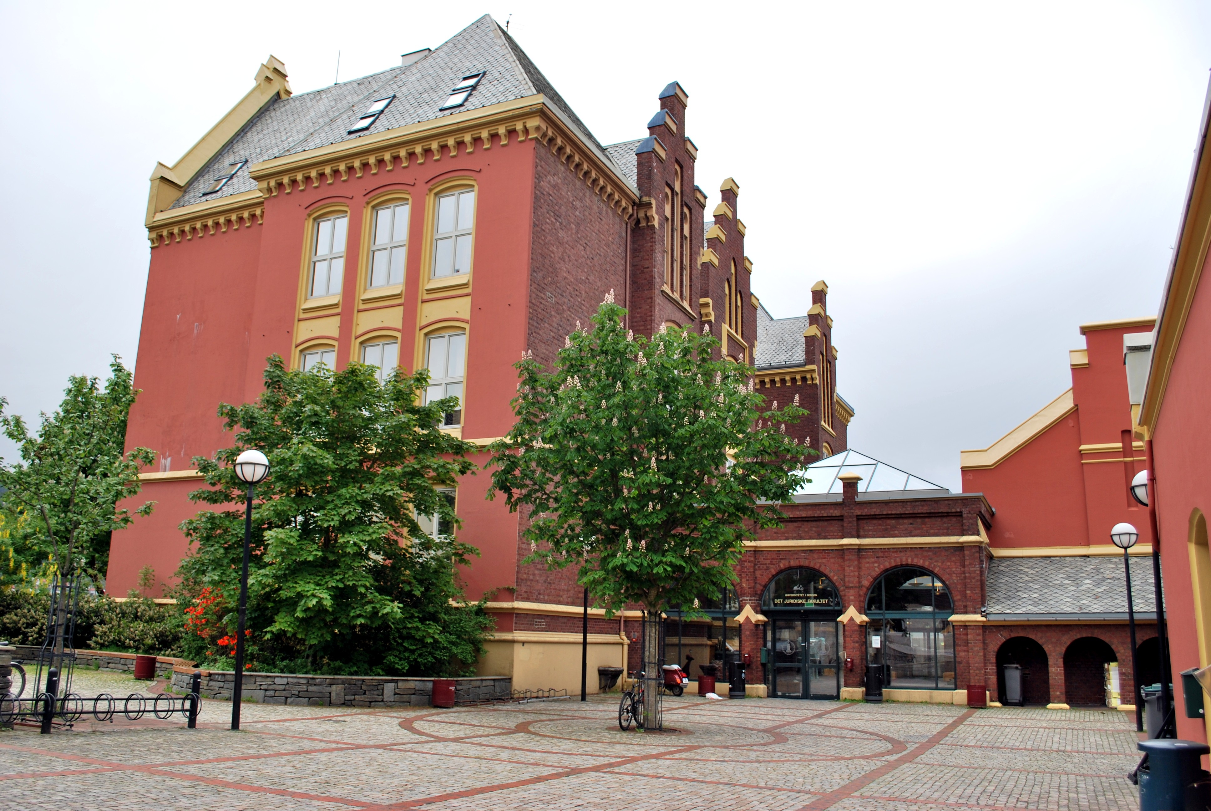 Faculty of Law, Det juridiske fakultet, University of Bergen.